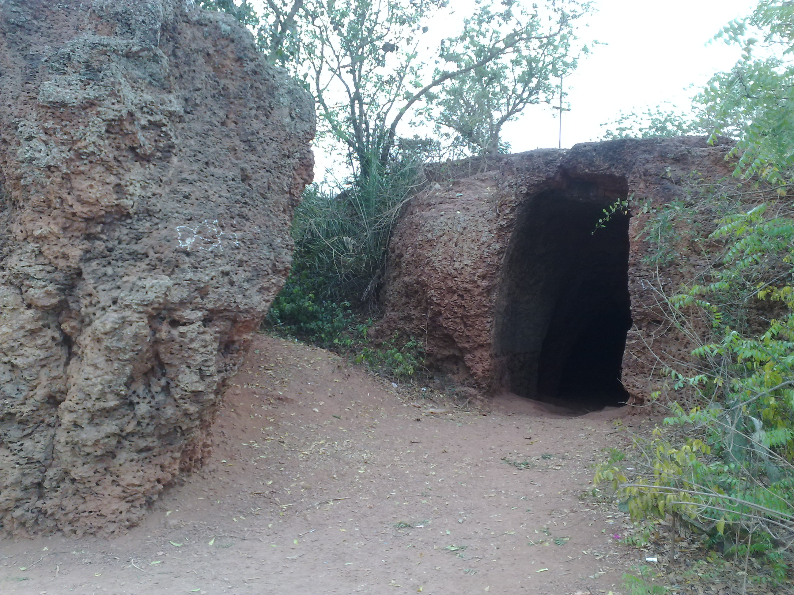 Pandavula Metta cave